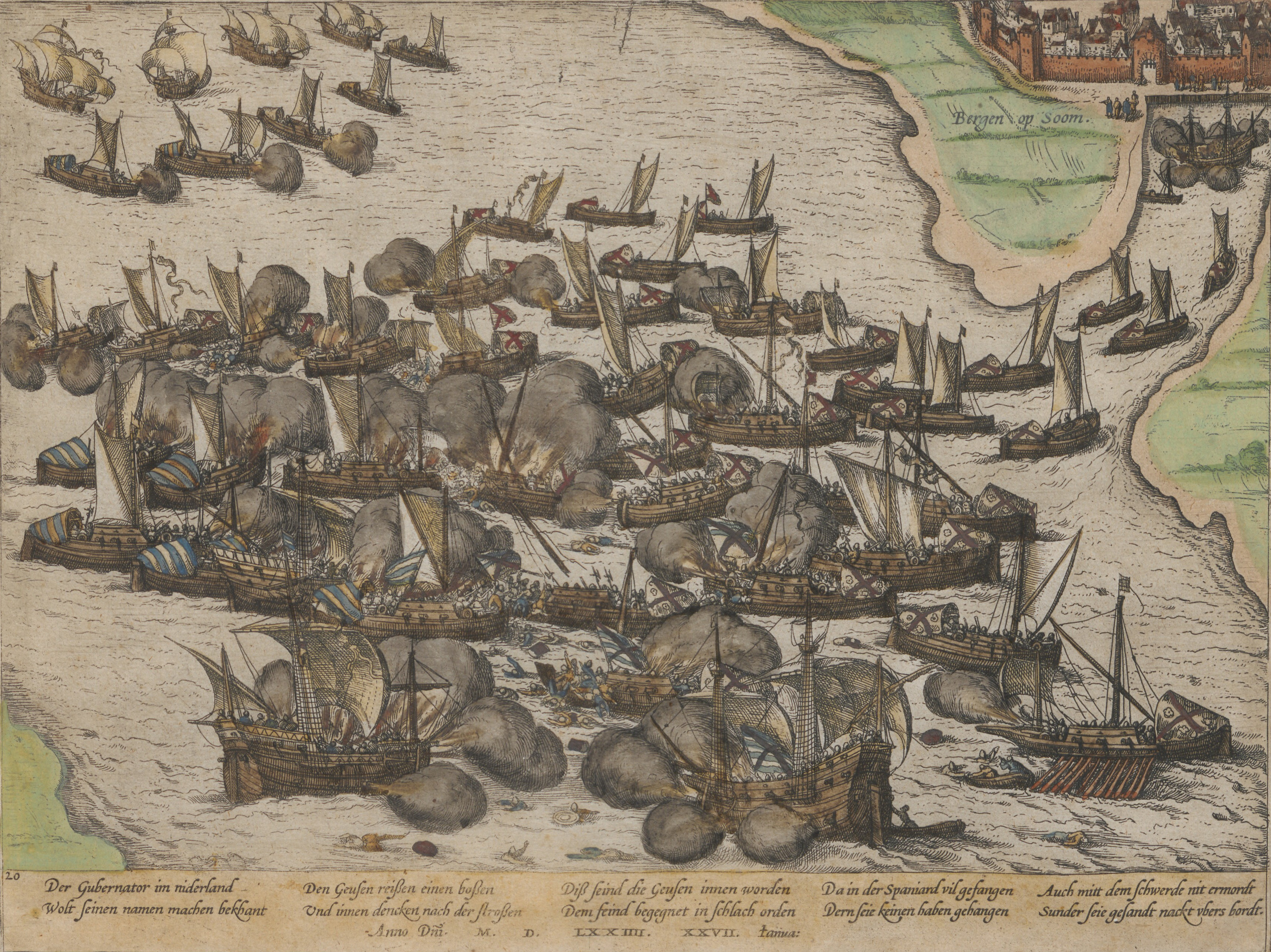 Battle on the Schelde near Bergen op Zoom and Reymerswaal